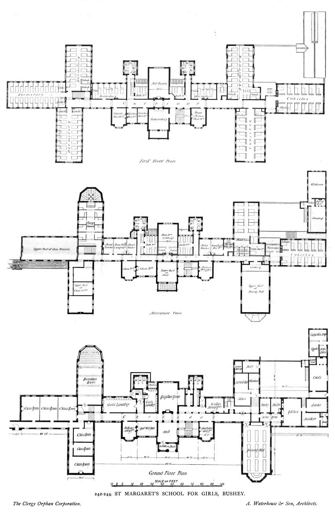 Floor plans for three floors (the attic floor is not shown) of a one block boarding school at Bushey, designed by Alfred Waterhouse for the Clergy Orphan Corporation. This was the Clergy Orphan School for girls.